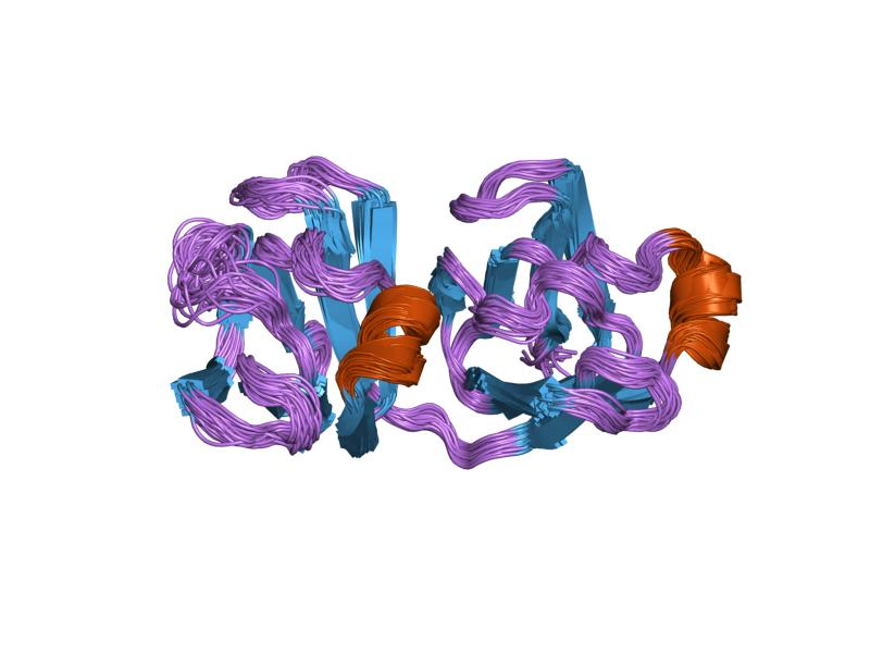 Cartoon representation of the molecular structure of protein registered with 1prs code.